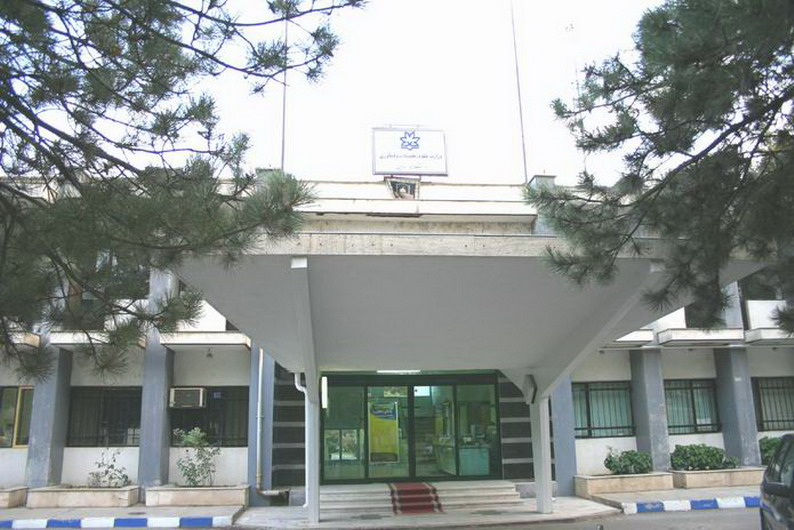 One of old buiding of Urmia University that is in the urban campus of the university.